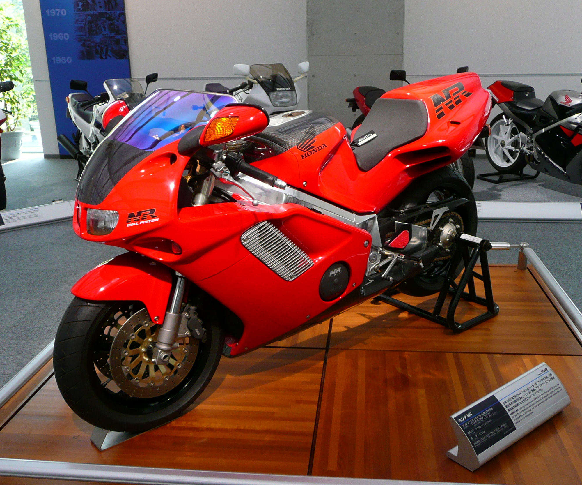 HONDA NR (Honda collection hall)